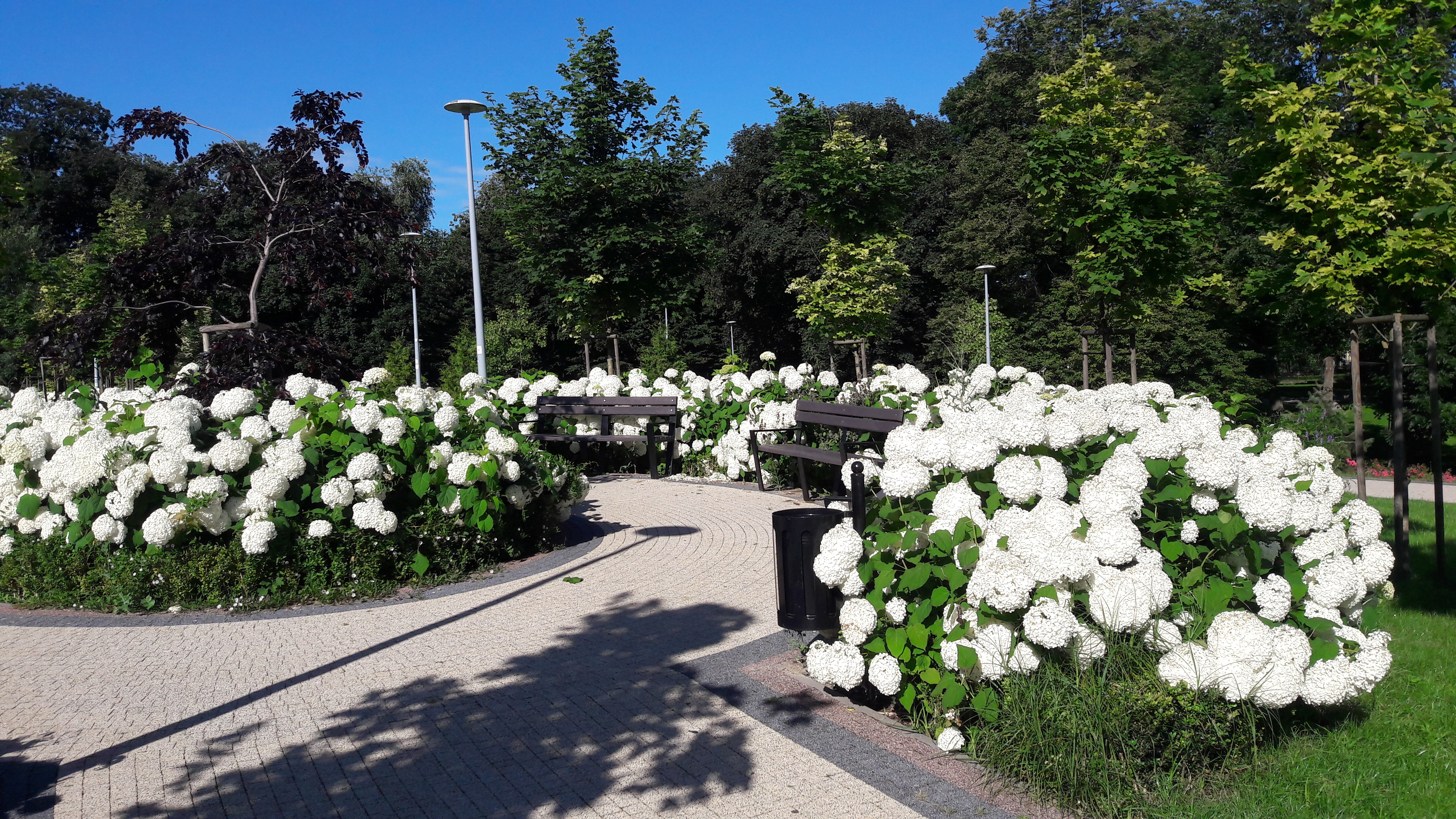 Szpalery kwiatów